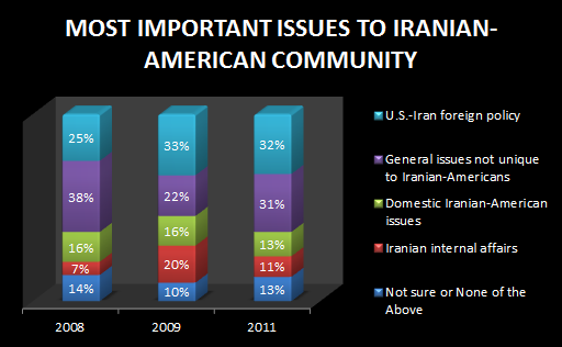 2011-Survey of Iranian-Americans